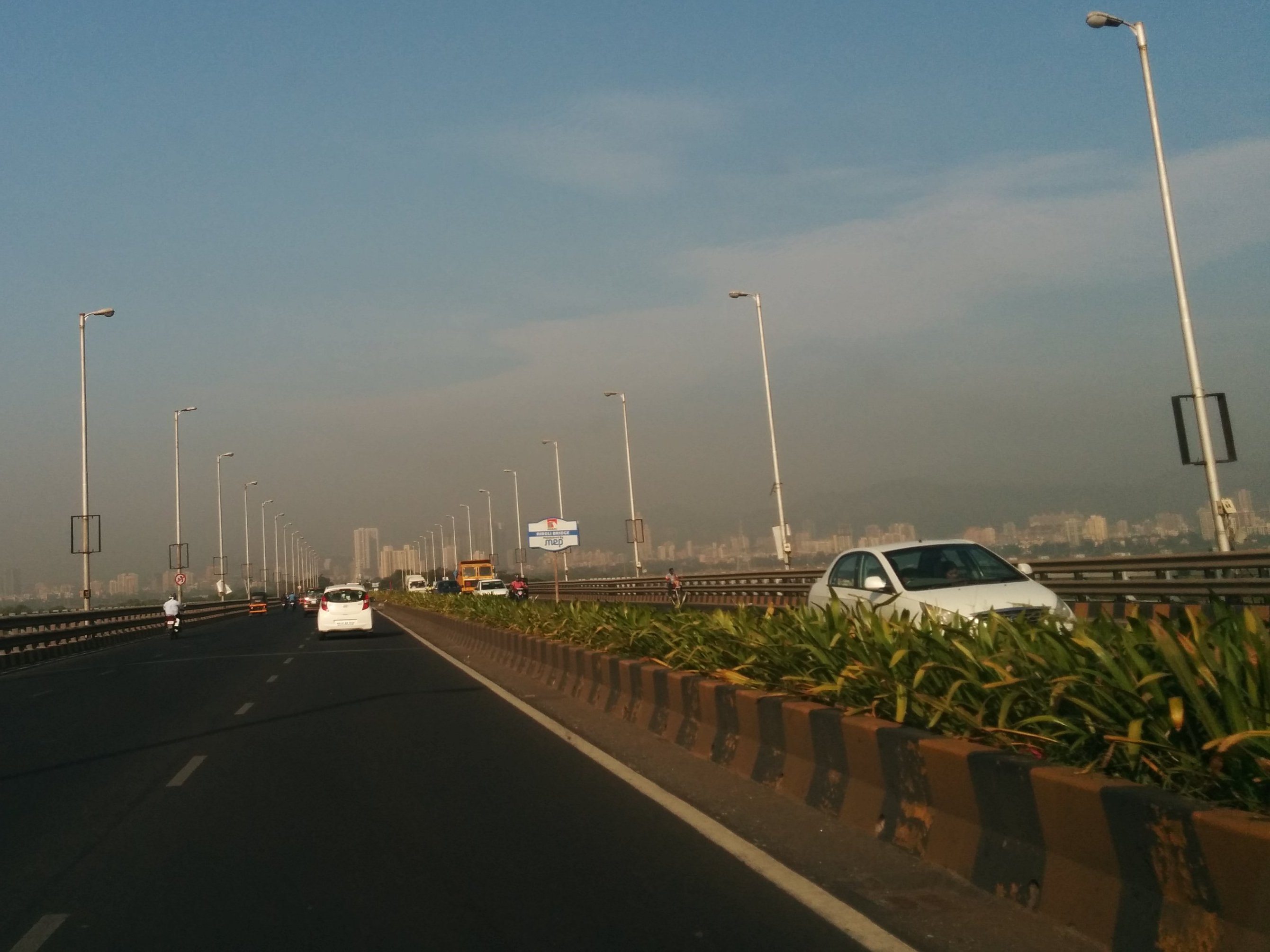 Shailesh Kuttappan